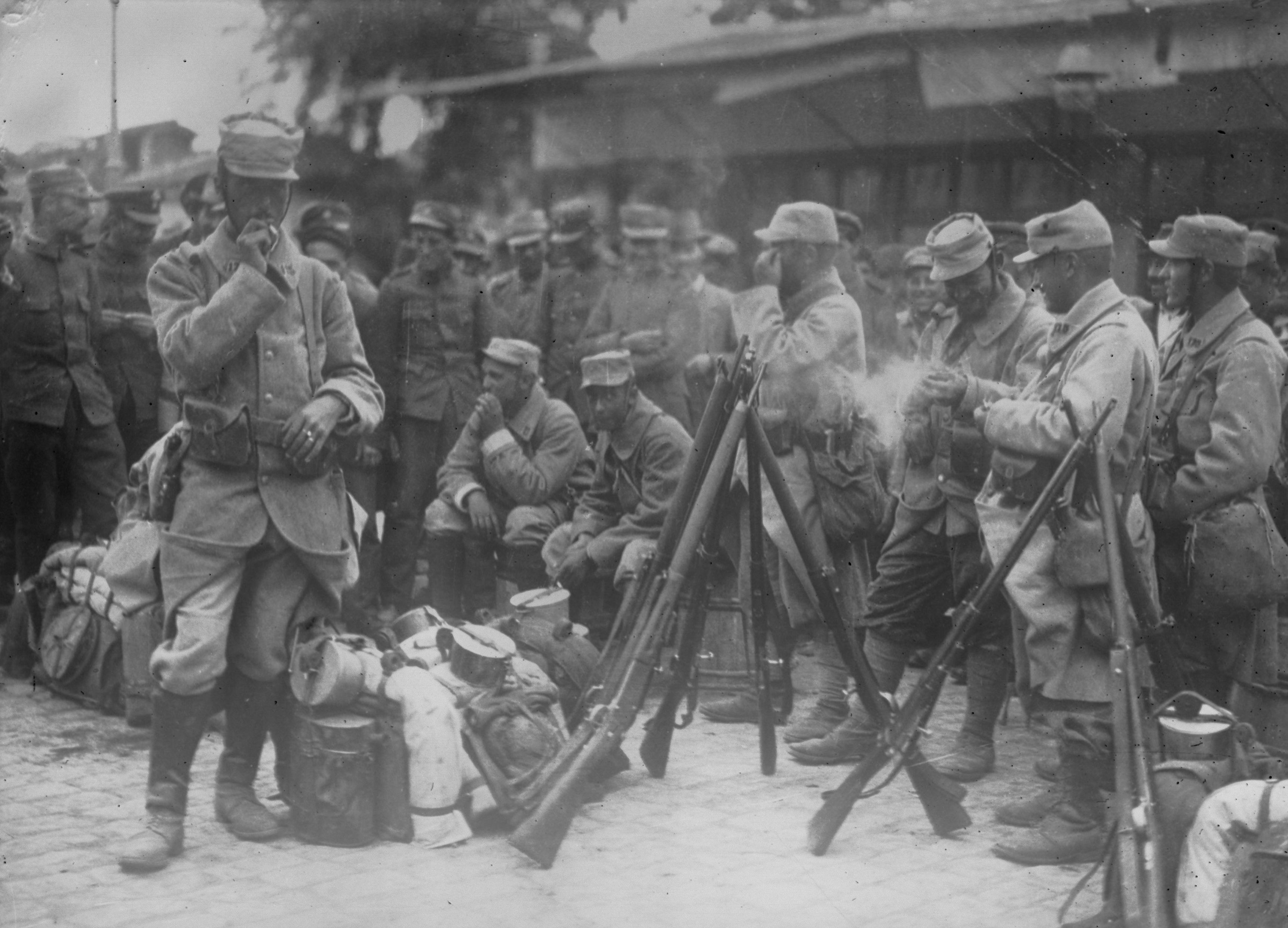 French soldiers halt in Salonika, 1915.